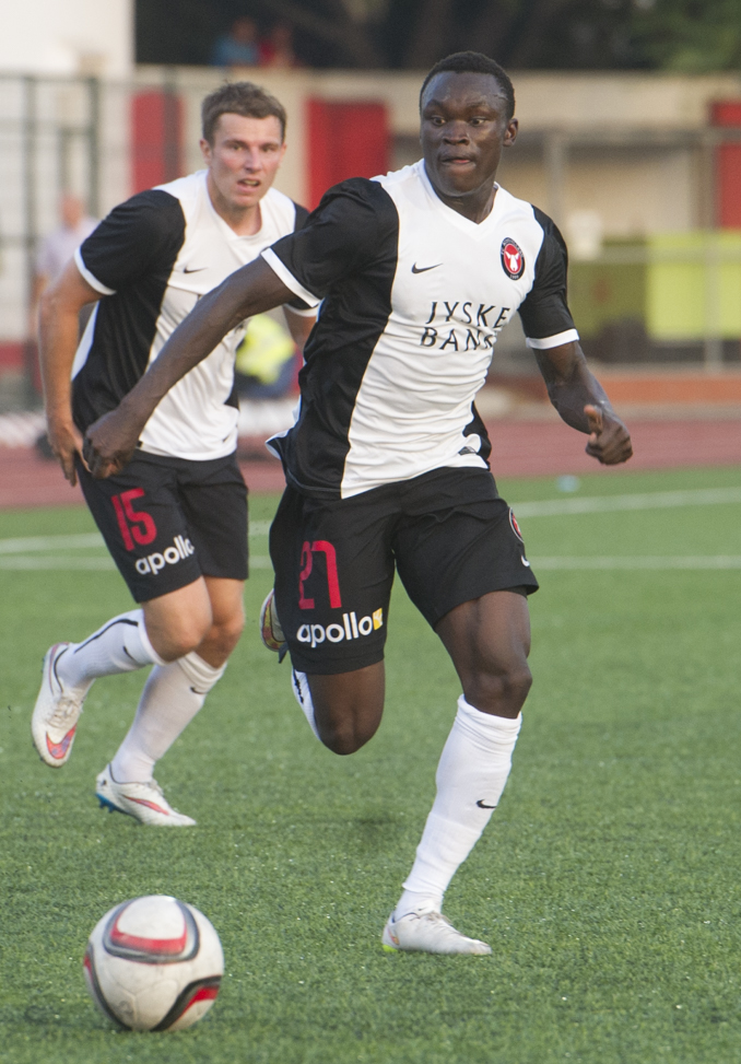 Jesper Lauridsen (left) and Pione Sisto (right) during the match Lincoln Red Imps–Midtjylland for the second qualifying round of the 2015–16 UEFA Champions League